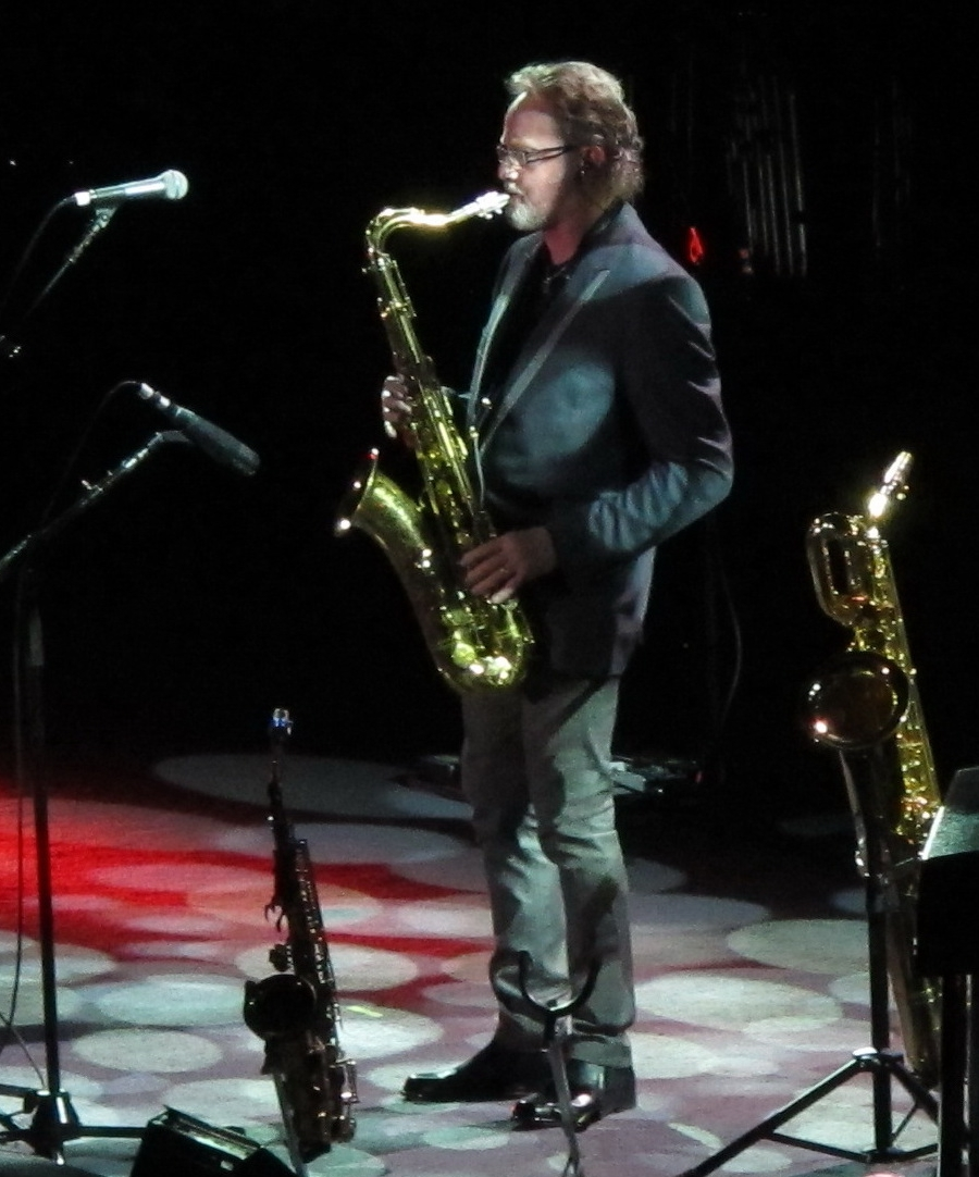 John Helliwell (of Supertramp) performing at the Save-On-Foods Memorial Centre.